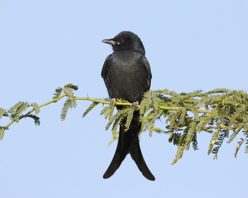 Black Drongo, Dicrurus macrocercus Location: Little Rann of Kutch, Gujerat, India 6th. November 2006